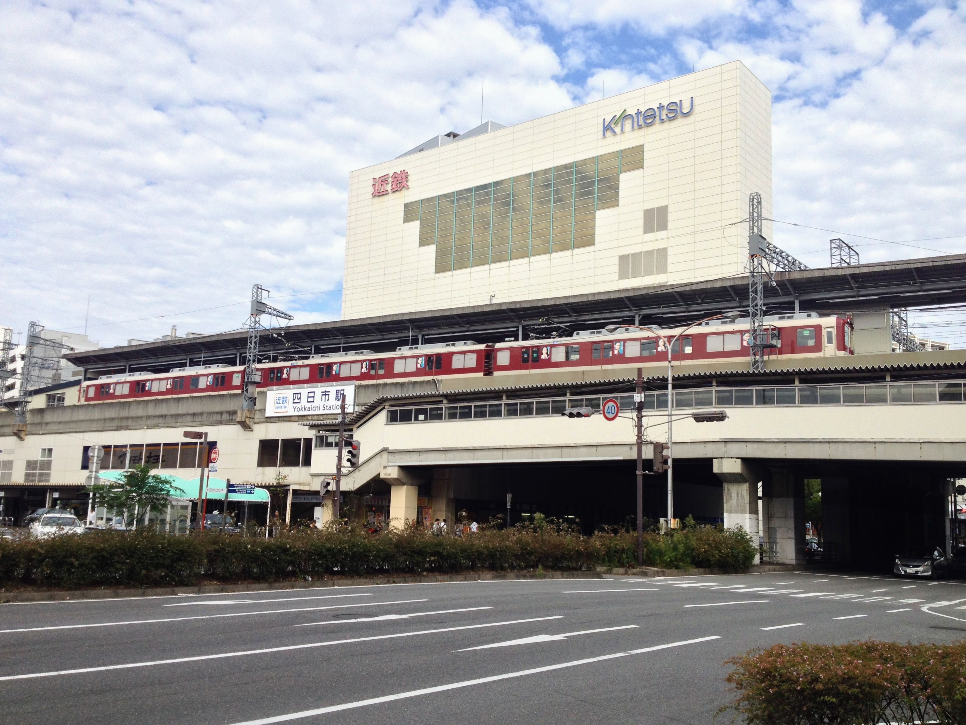 Kintetsu-Yokkaichi Station in Yokkaichi, Mie Prefecture, Japan